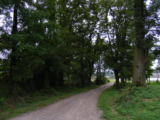 Alley in Jasiony, Błażkowa, formerly owned by Irzykowski family